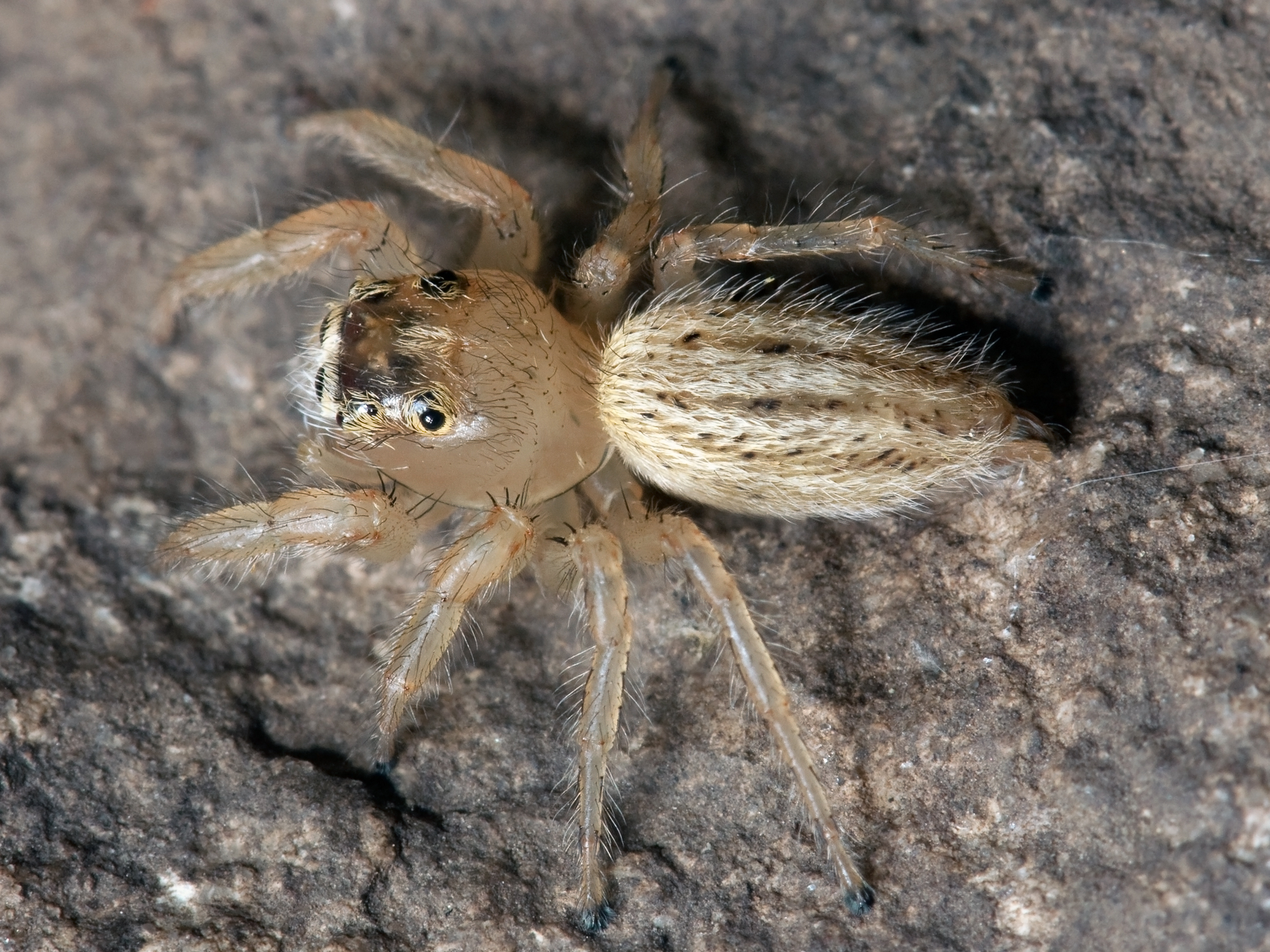 Adult female Colonus puerperus